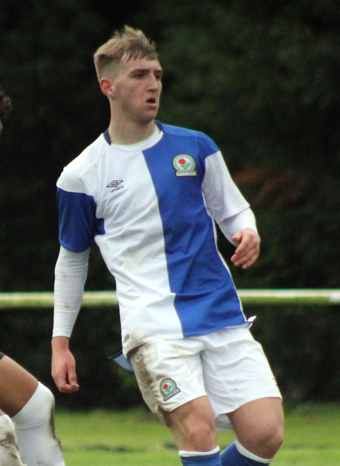 Dan Butterworth playing for Blackburn Rovers U18s in a 4–1 defeat to Manchester United U18s in the U18 Premier League North on 18 November 2017.